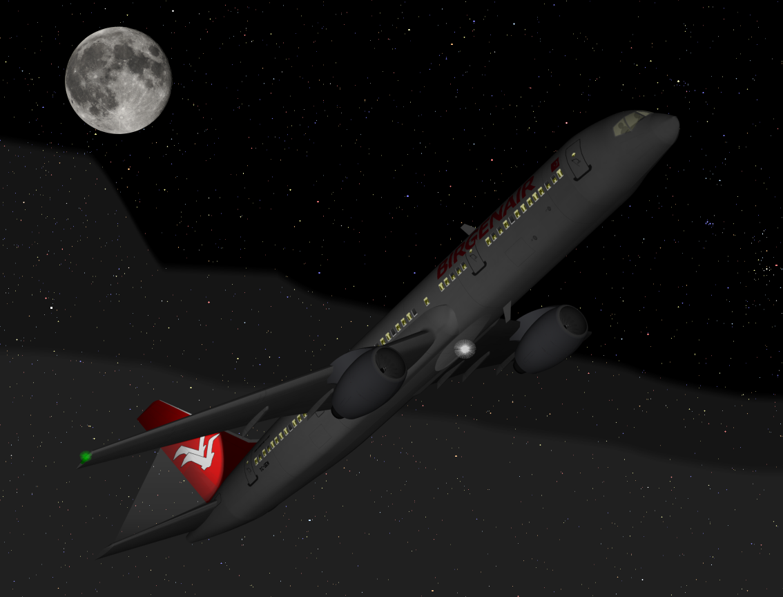 Birgenair Flight 301 757